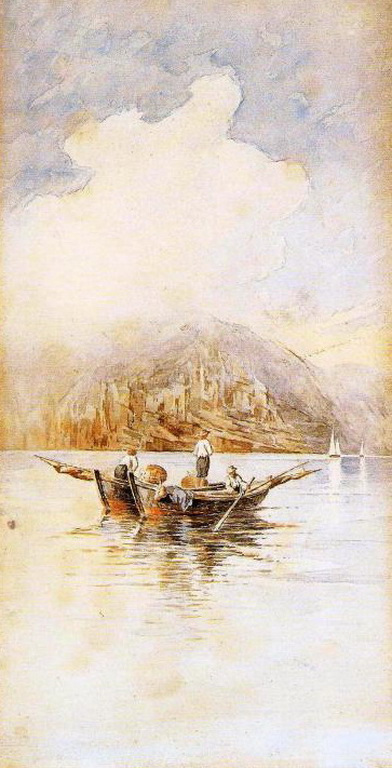 Companionship of fishermen